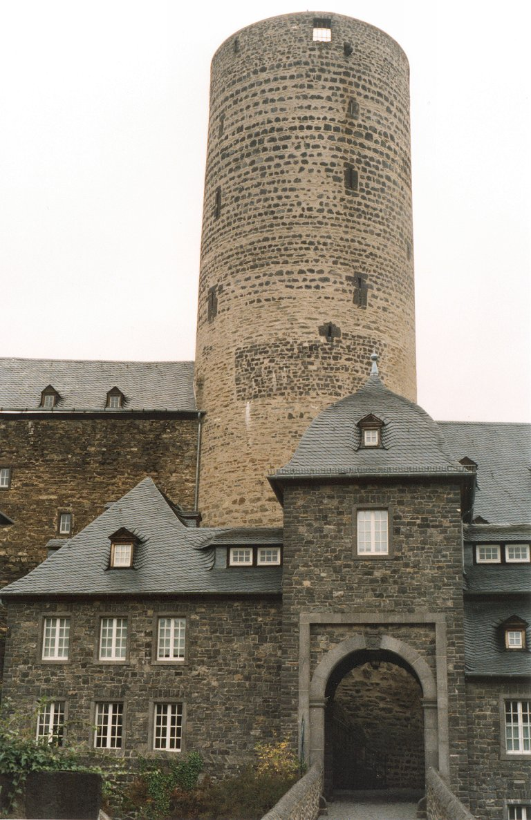 Genovevaburg in Mayen, medieval keep